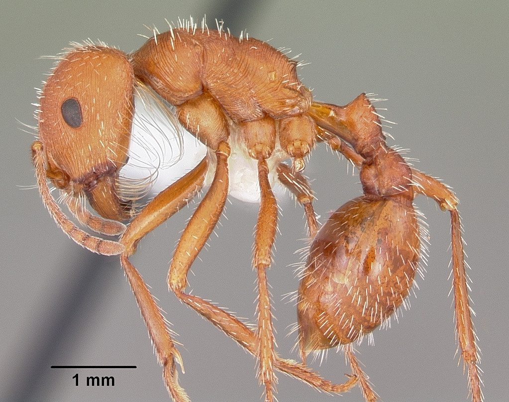 Profile view of ant Pogonomyrmex comanche specimen casent0104840.